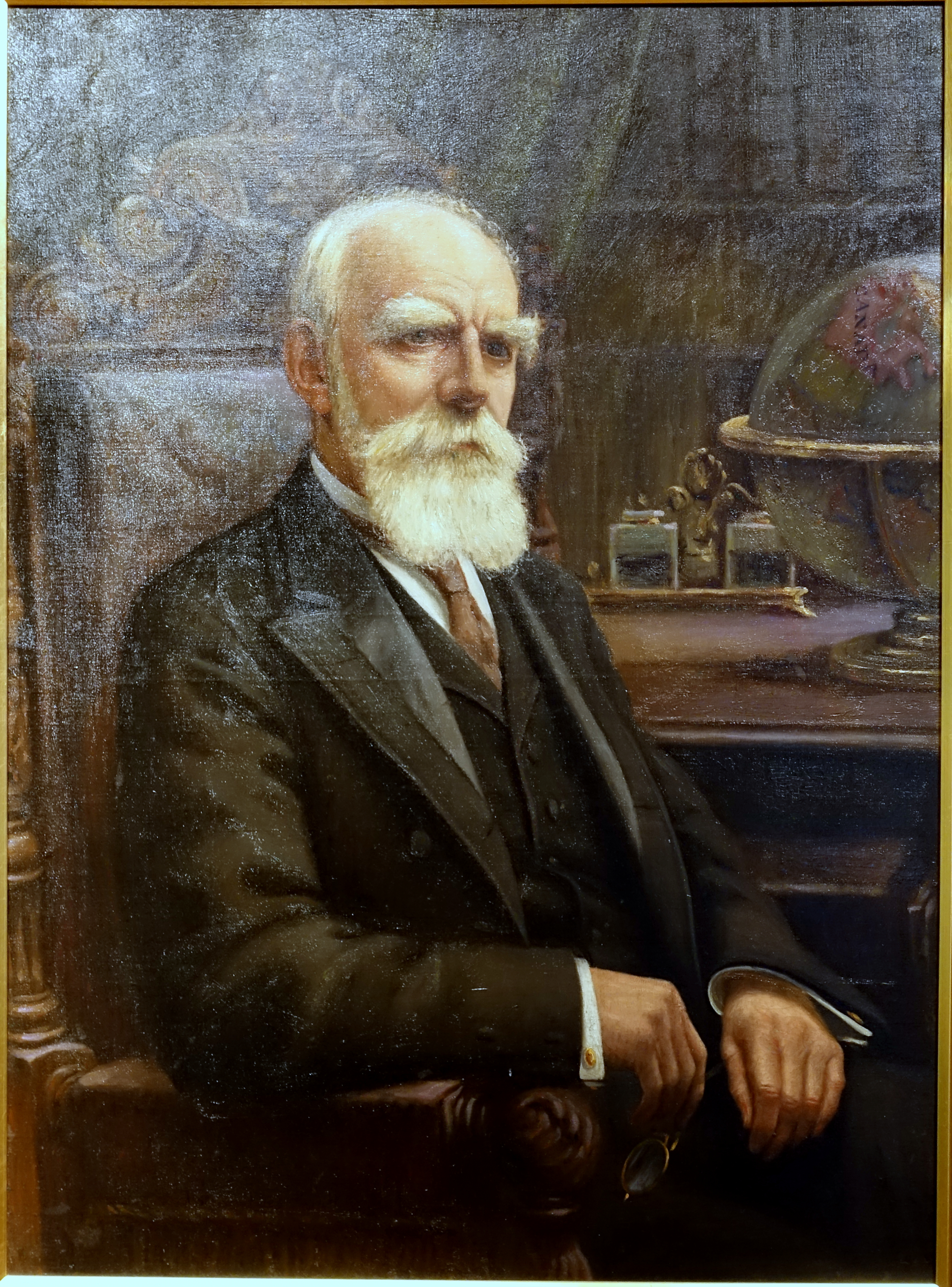 Exhibit in the Château Ramezay - Montreal, Quebec, Canada.